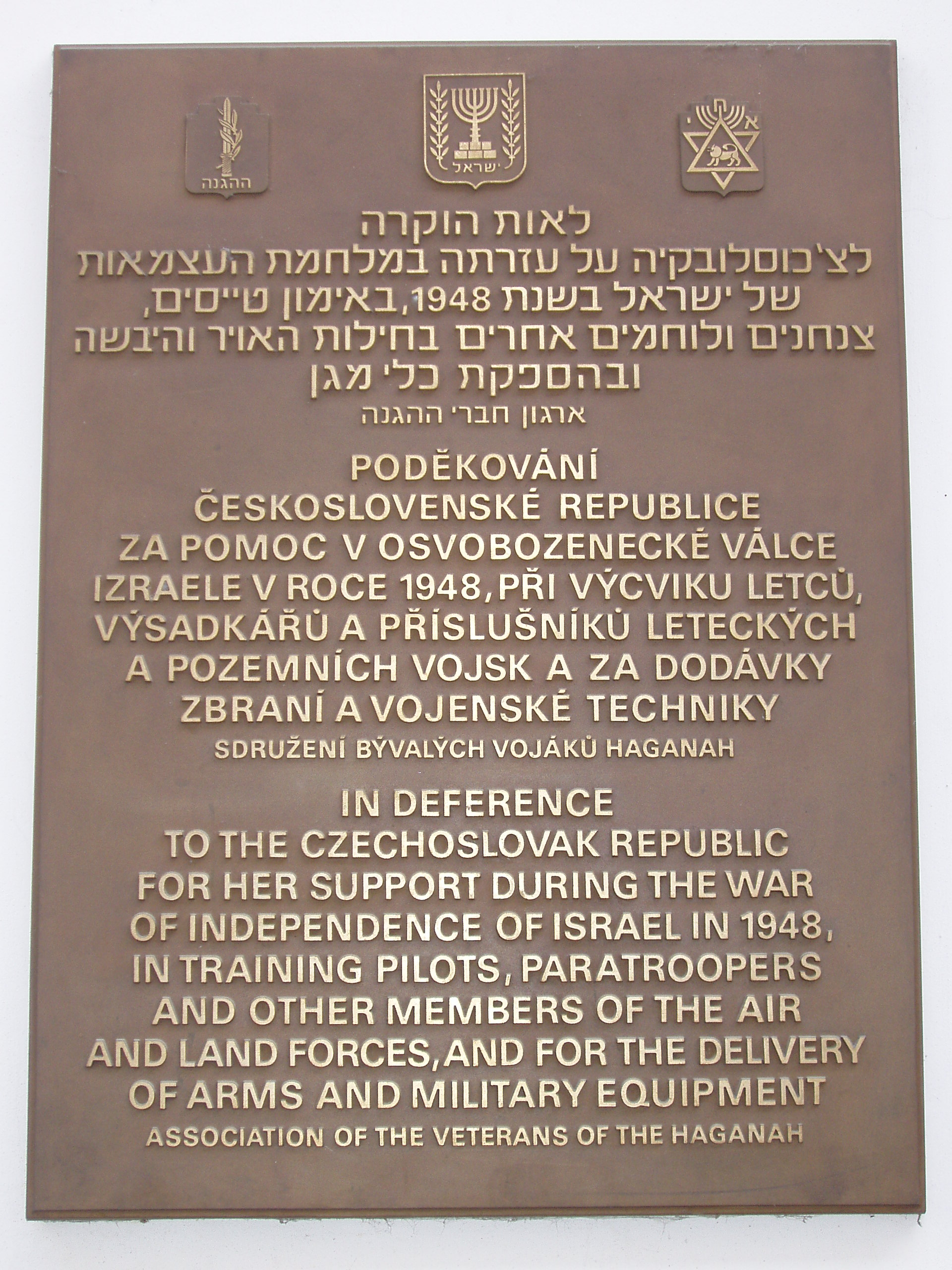 Acknowledgement of the association of the veterans of the Haganah to Czechoslovakia, in Prague